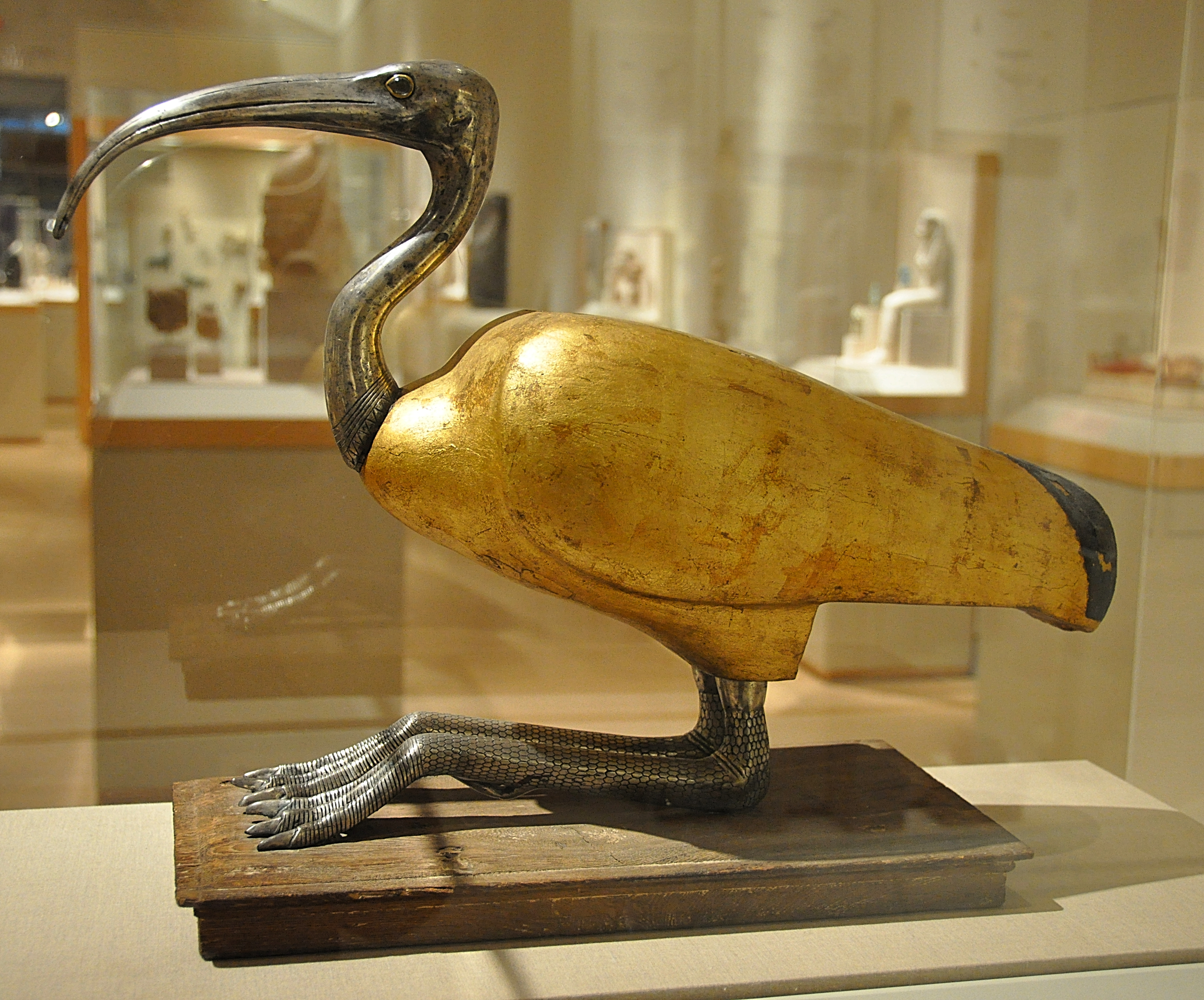 Standing Figure of an Ibis, 305-30 B.C.E. Wood, silver, gold, and rock crystal, 15 1/16 x 23 1/8 in. (38.2 x 58.7 cm). Brooklyn Museum, Charles Edwin Wilbour Fund, 49.48.